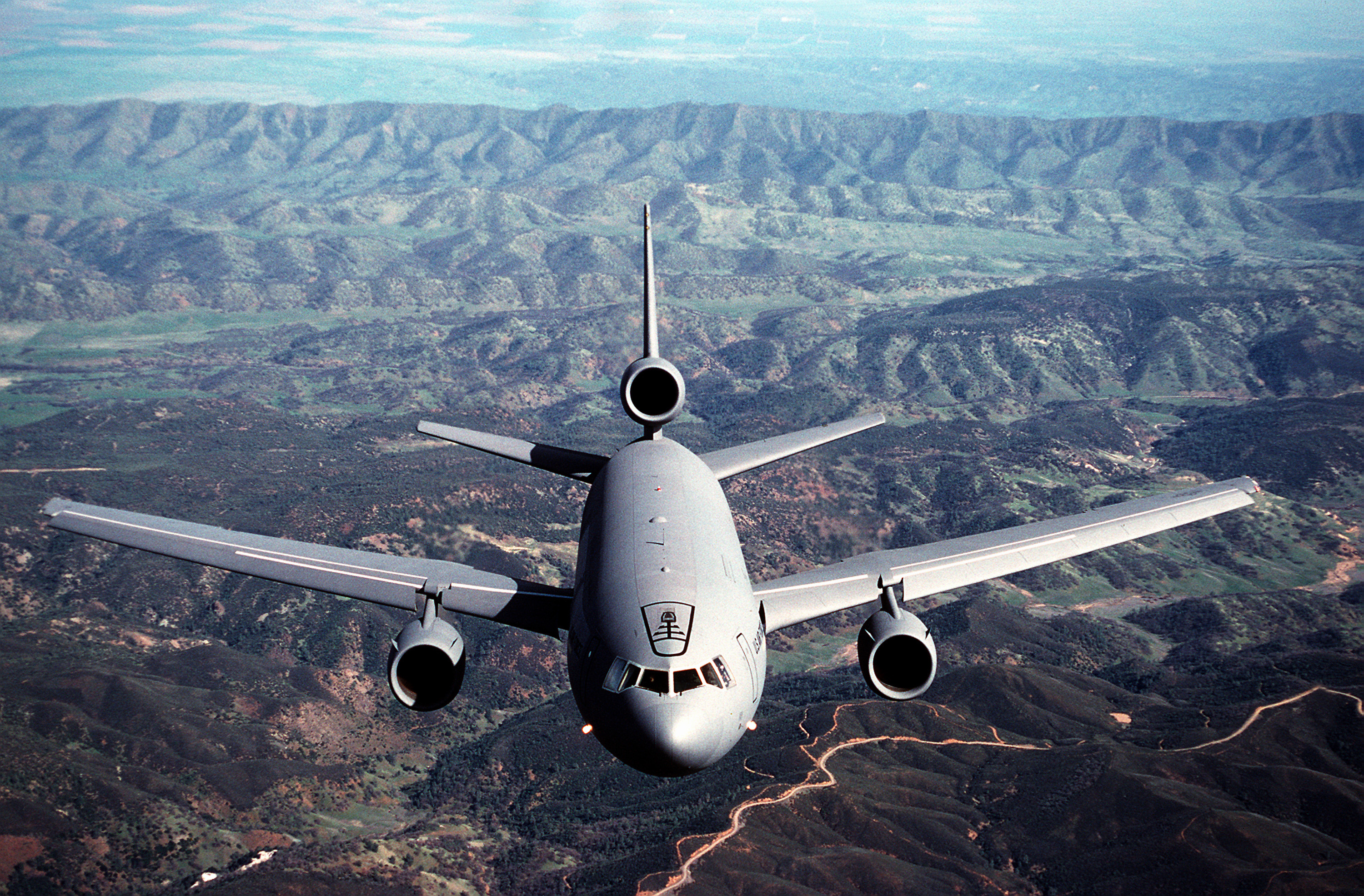 A 79th Air Refueling Squadron (79th AREFS) KC-10A Extender aircraft flies over a mountain range near Travis Air Force Base.